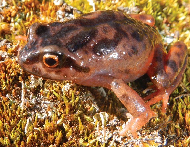 Cropped by File:Male of Phrynopus inti.jpg